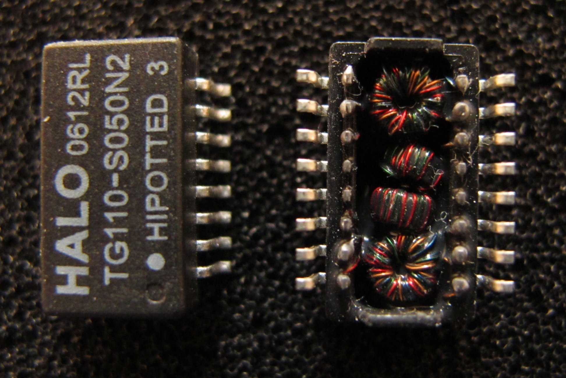 SMD-transfomers for the ethernet interface. Component top (left) and bottom (right)